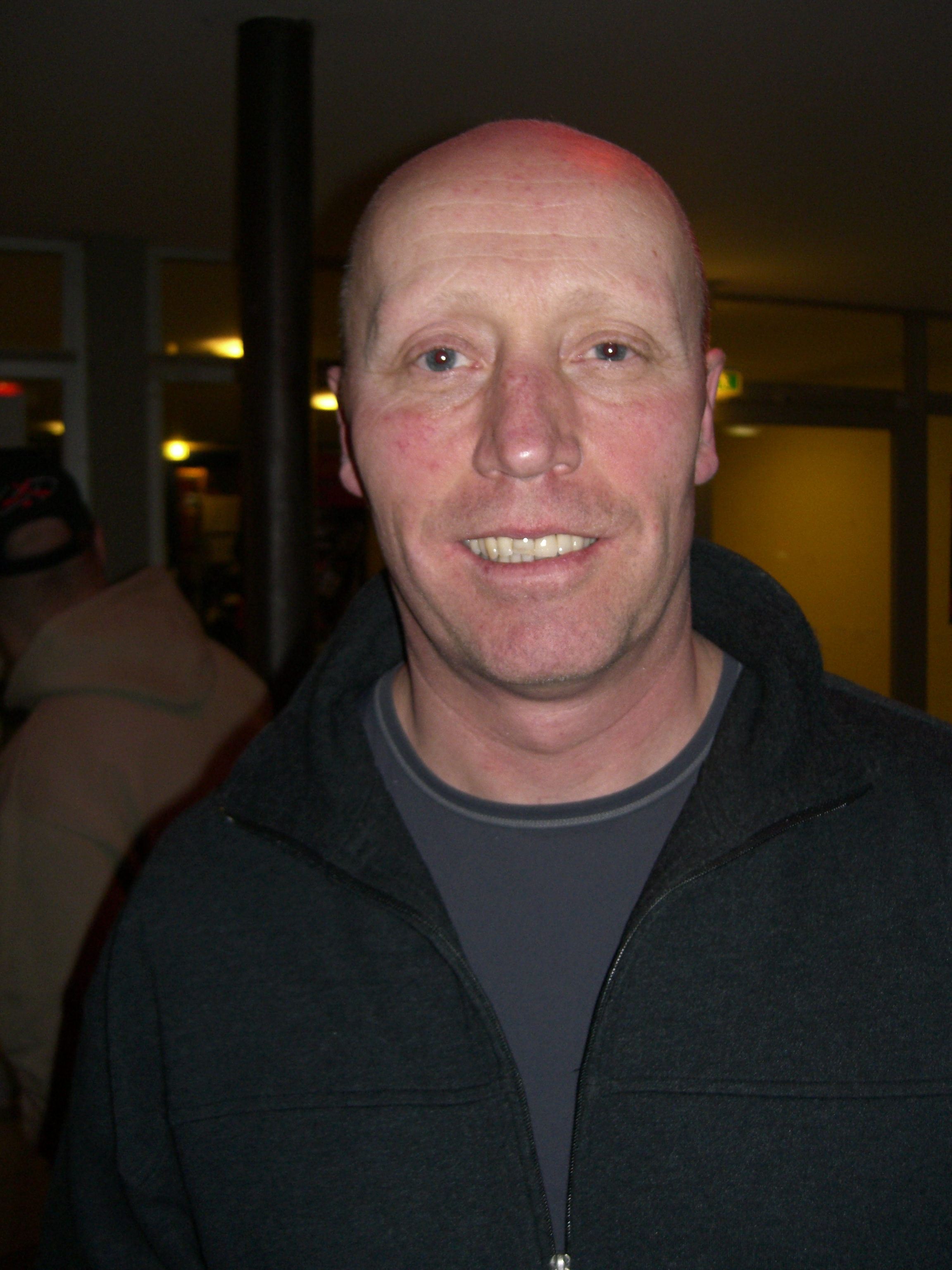 Doug Mason, Ex-Headcoach der Iserlohn Roosters selbst fotografiert